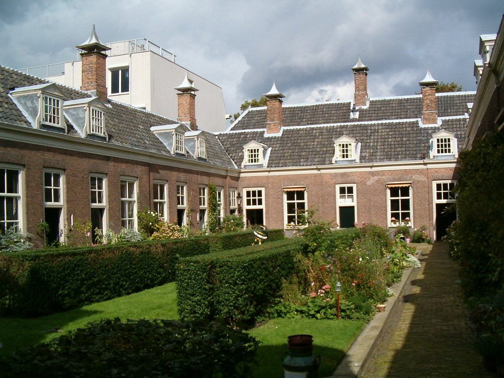 Picture taken by Guus Bosman on September 14th, 2004. I took the picture myself.